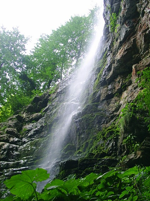 Zeleni Vir waterfall near Skrad, Croatia